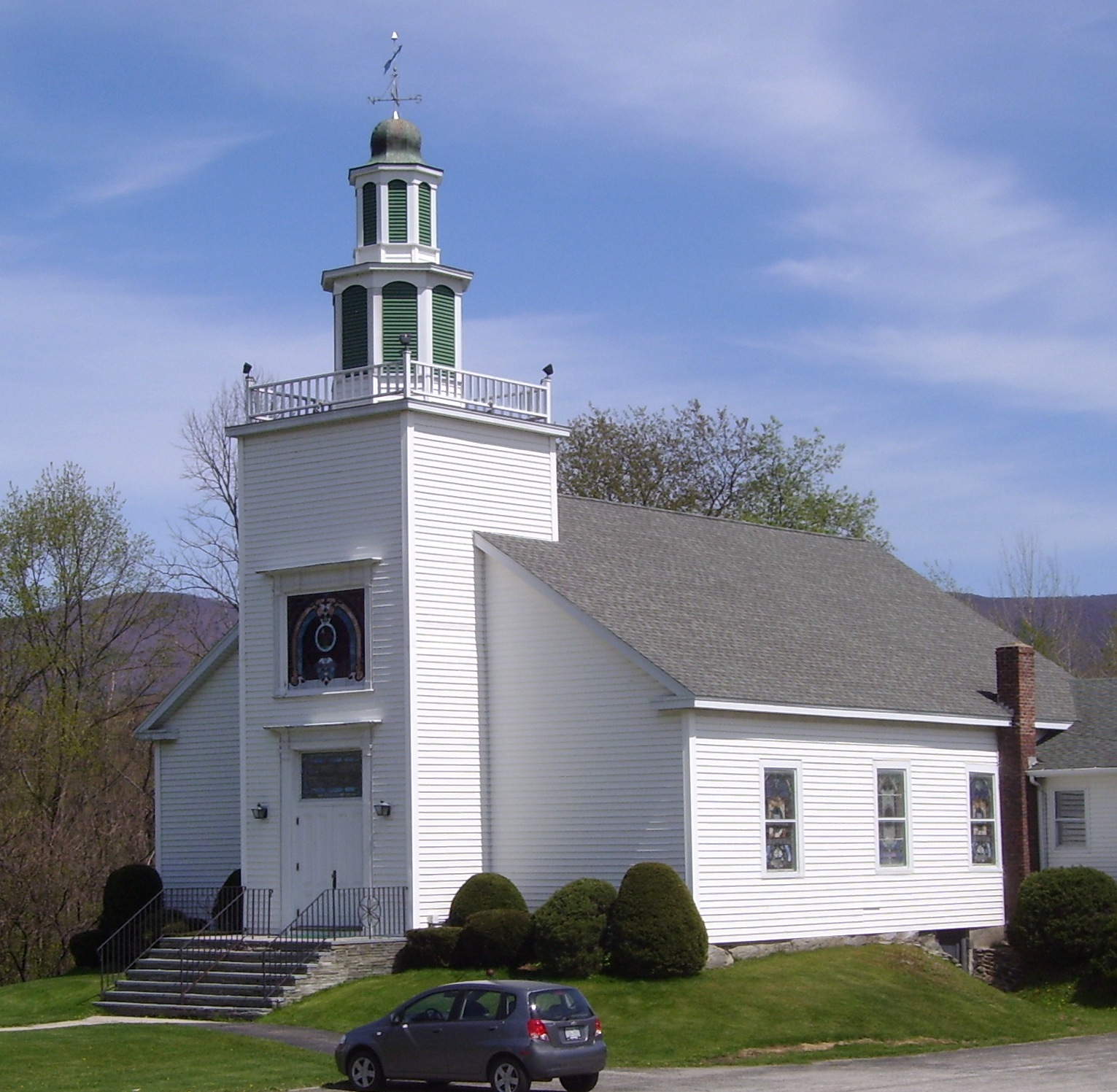 Pet3ersburg Baptist Church on Route 22 in the hamlet of Petersburg in the town of Petersburgh, New York.